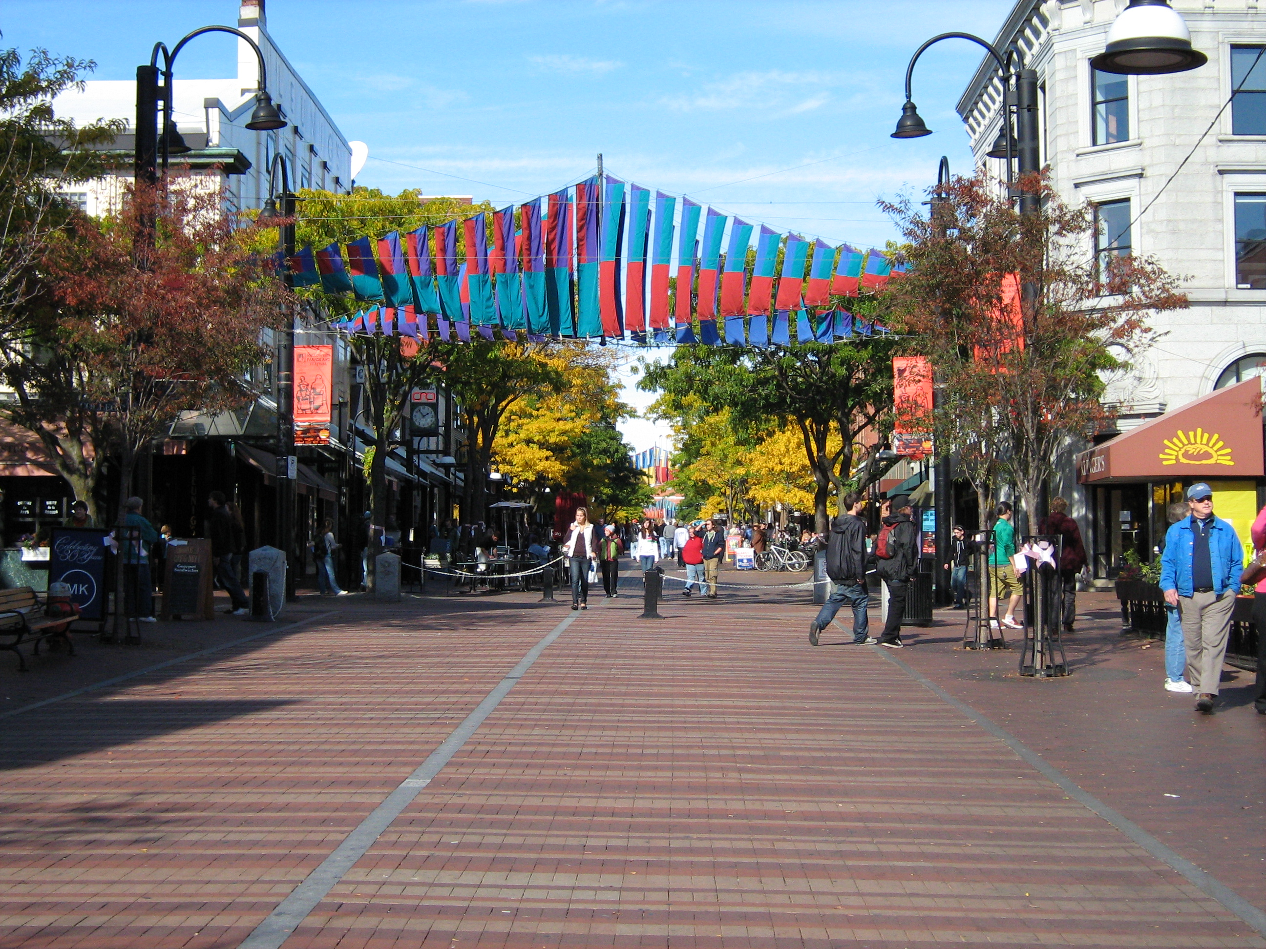 Northward view of the Church Street Marketplace from the intersection of Bank Street in Burlington, Vermont, United States.